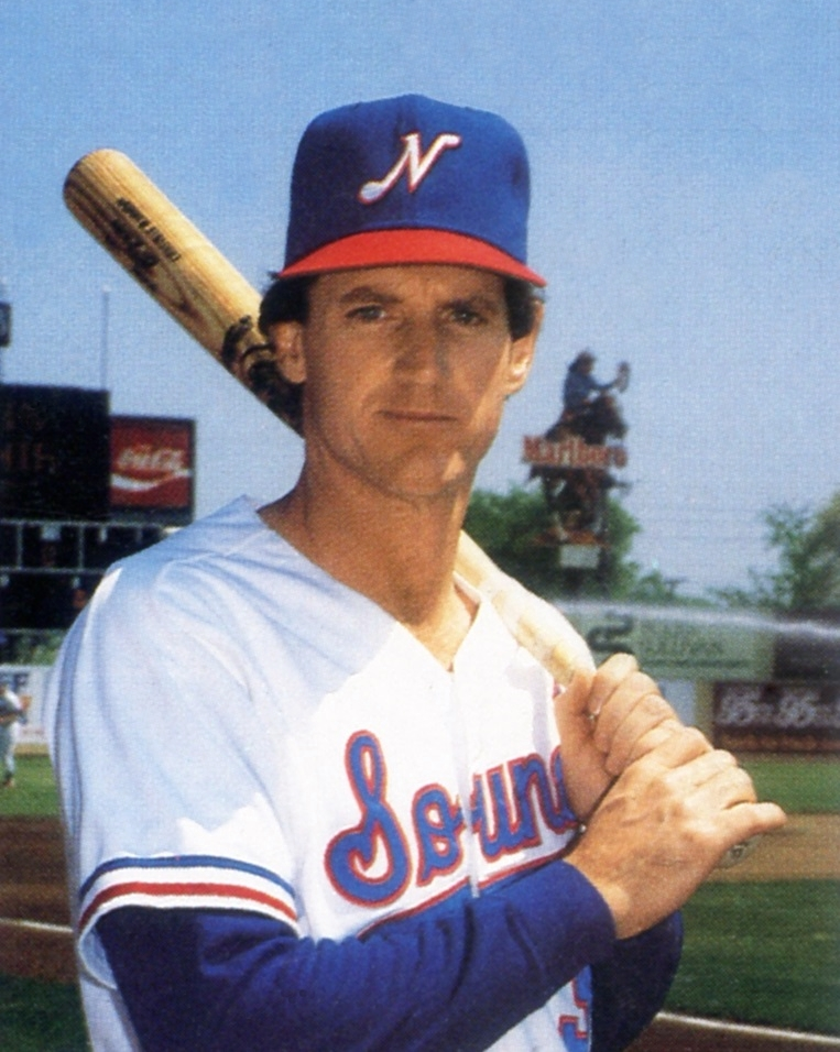 Outfielder Ron Roenicke of the 1988 Nashville Sounds Minor League Baseball team of the American Association